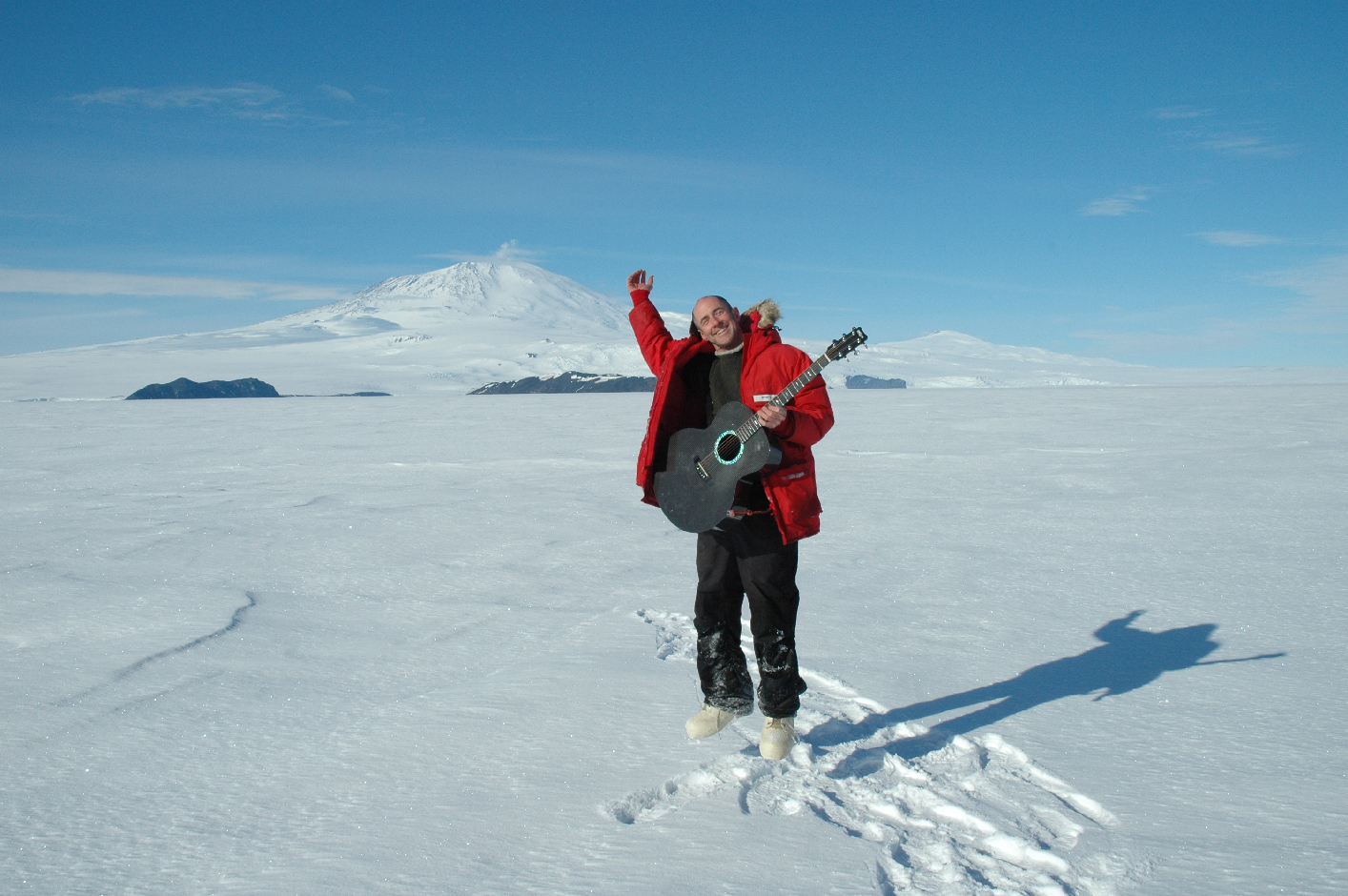 Henry Kaiser, a member of the National Science Foundation's Artist and Writer program, hails a greeting against the backdrop of the active volcano Mt Erebus.